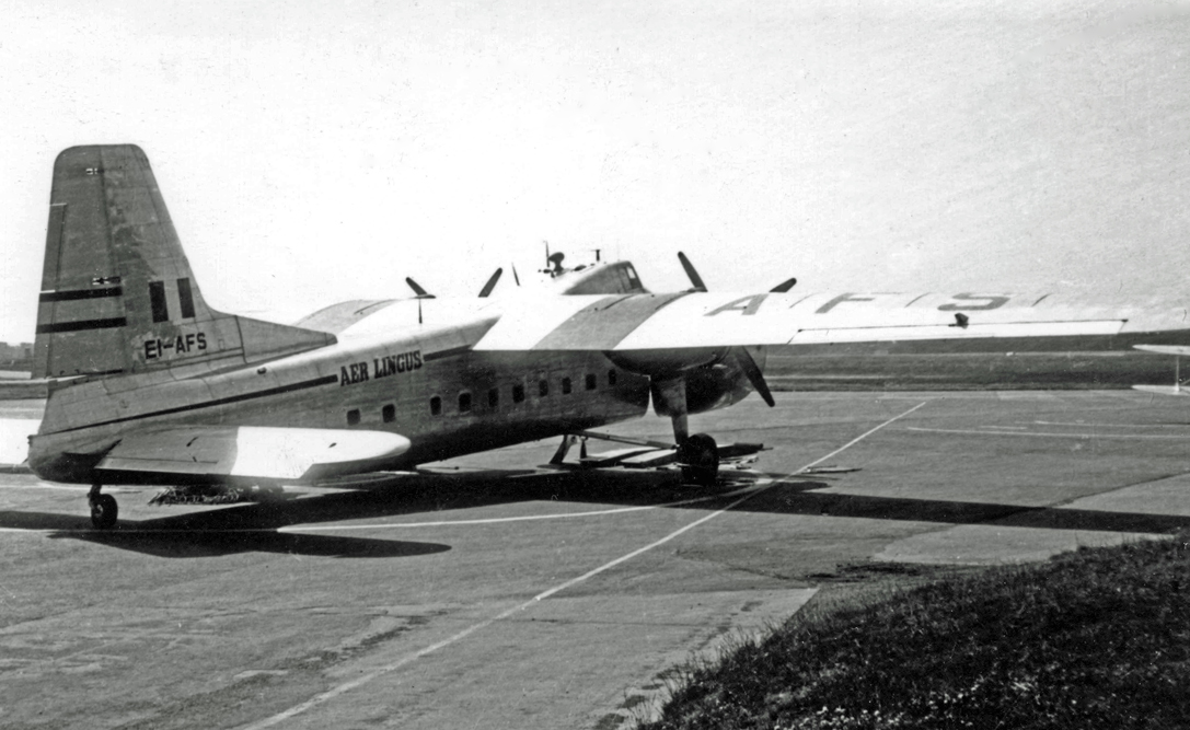 Bristol 170 Freighter 31 EI-AFS of Aer Lingus at Manchester (Ringway) Airport in 1953